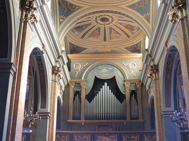 The pipe organ in the Church of Gravellona Lomellina